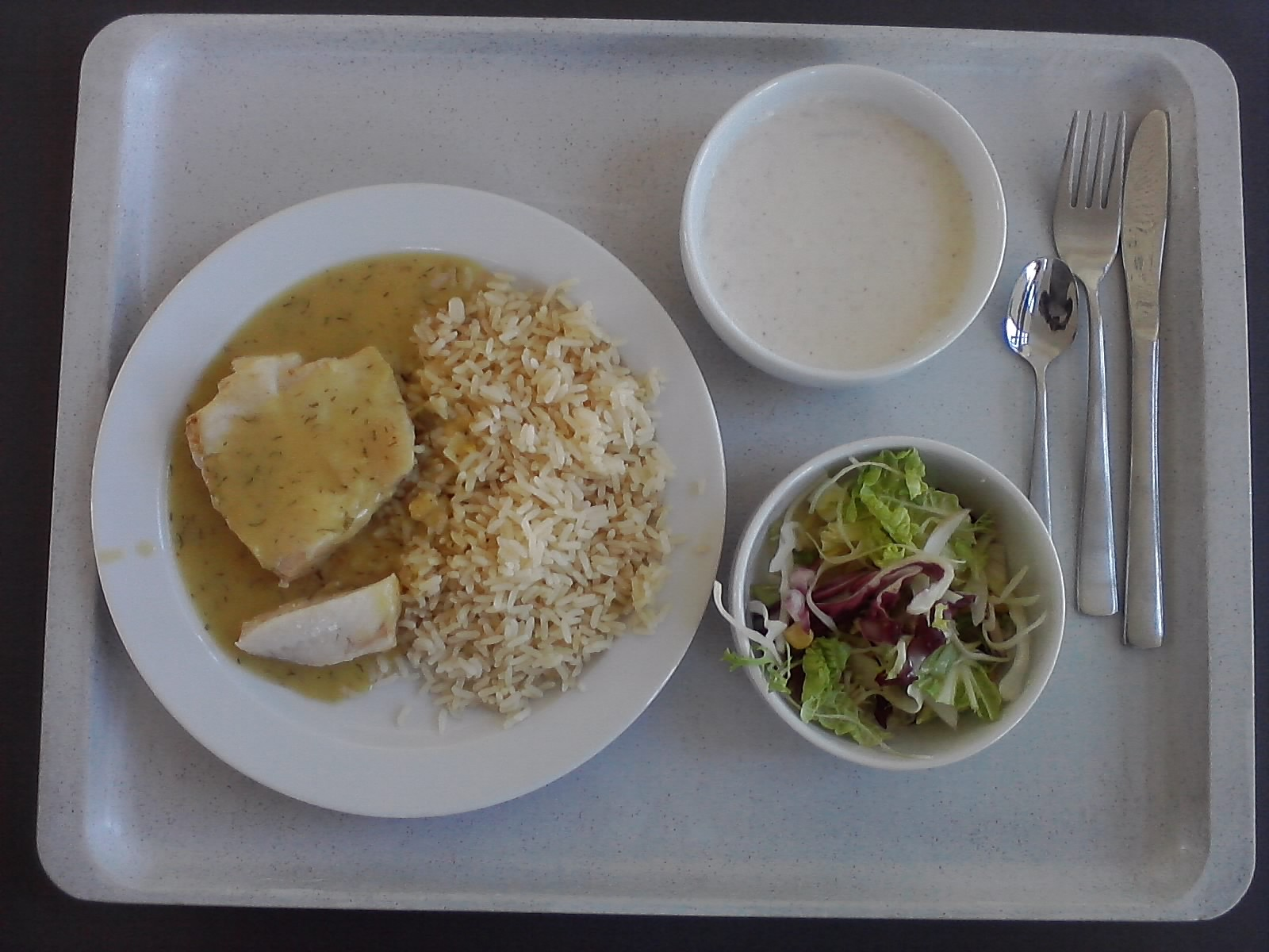 Blue grenadier (Hoki fisch) filet with rice, dill and mustard sauce as a meal in cafeteria.